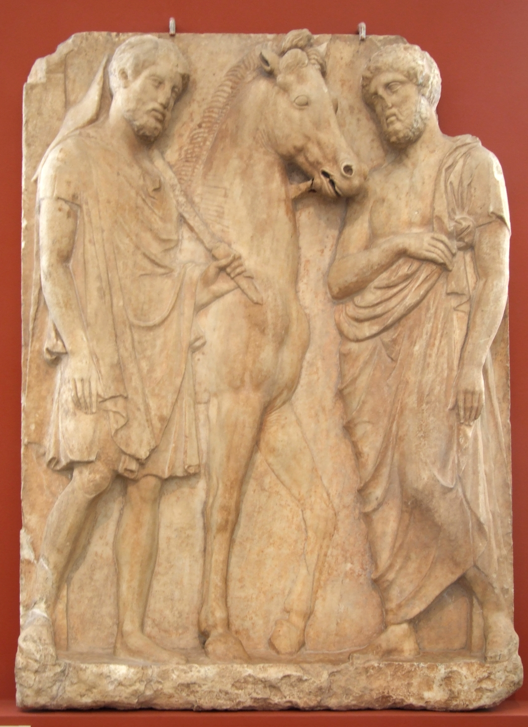 Grave stele of an athenian horseman. Attica, 370s BC. Marble, Pushkin museum